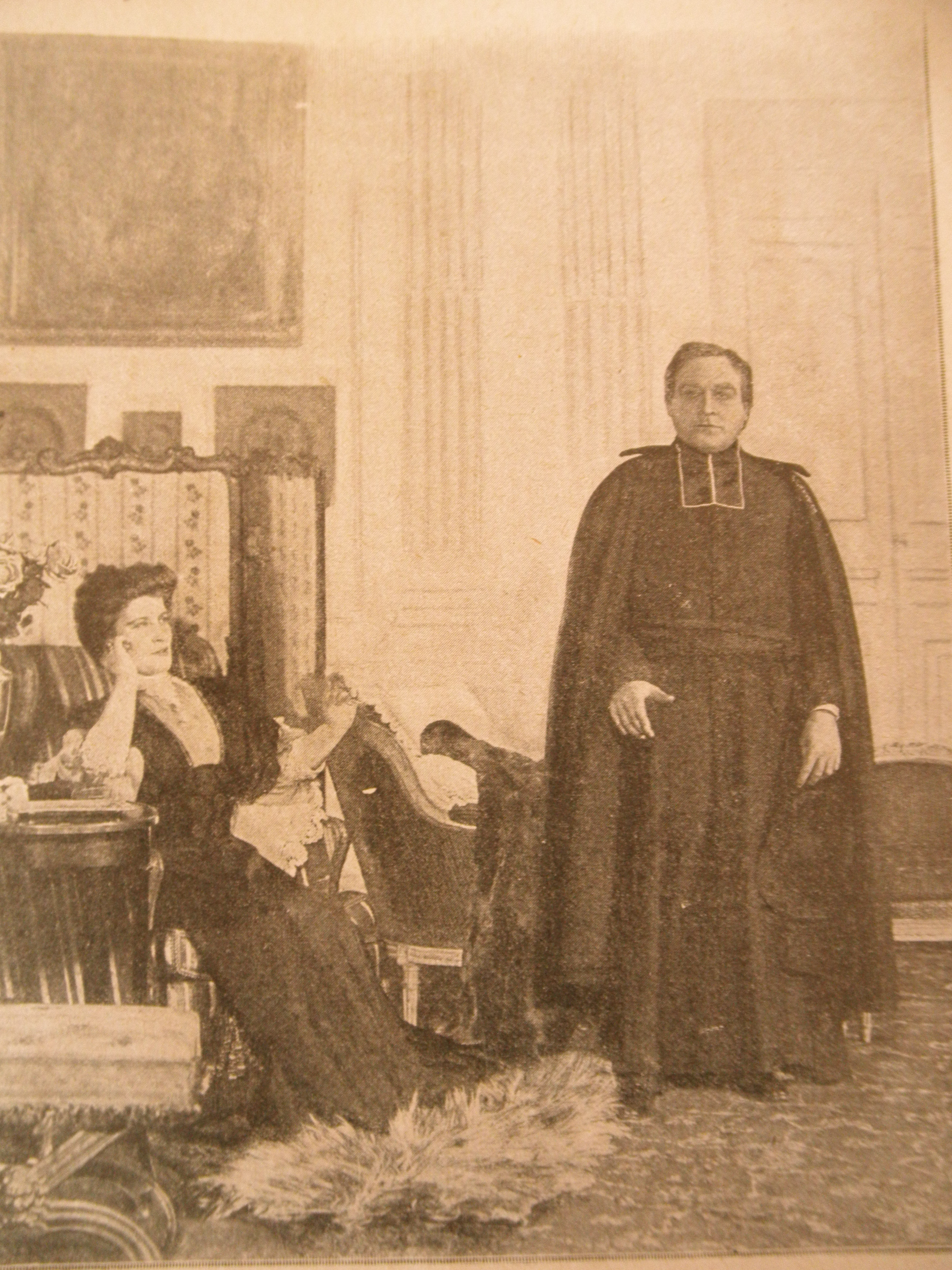 photo pièce theatre le divorce 1904